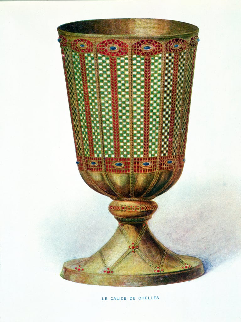 A 17th century engraving of the gold chalice, said to have been made by Saint Eloi for Chelles Abbey in the 7th century. The chalice was lost at the time of the Revolution when Chelles was dissolved.